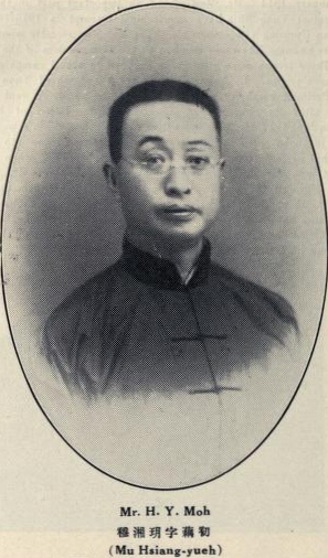 Mu Xiangyue (1876-1943)